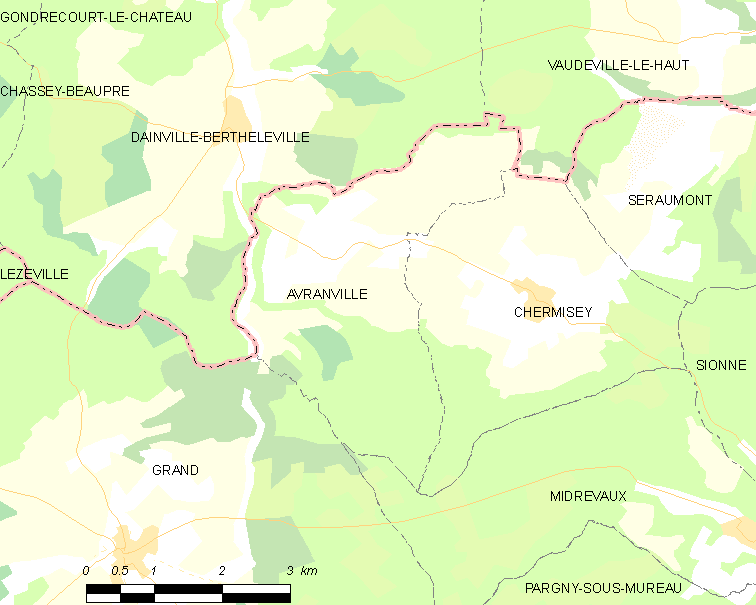 Map of French municipality Avranville